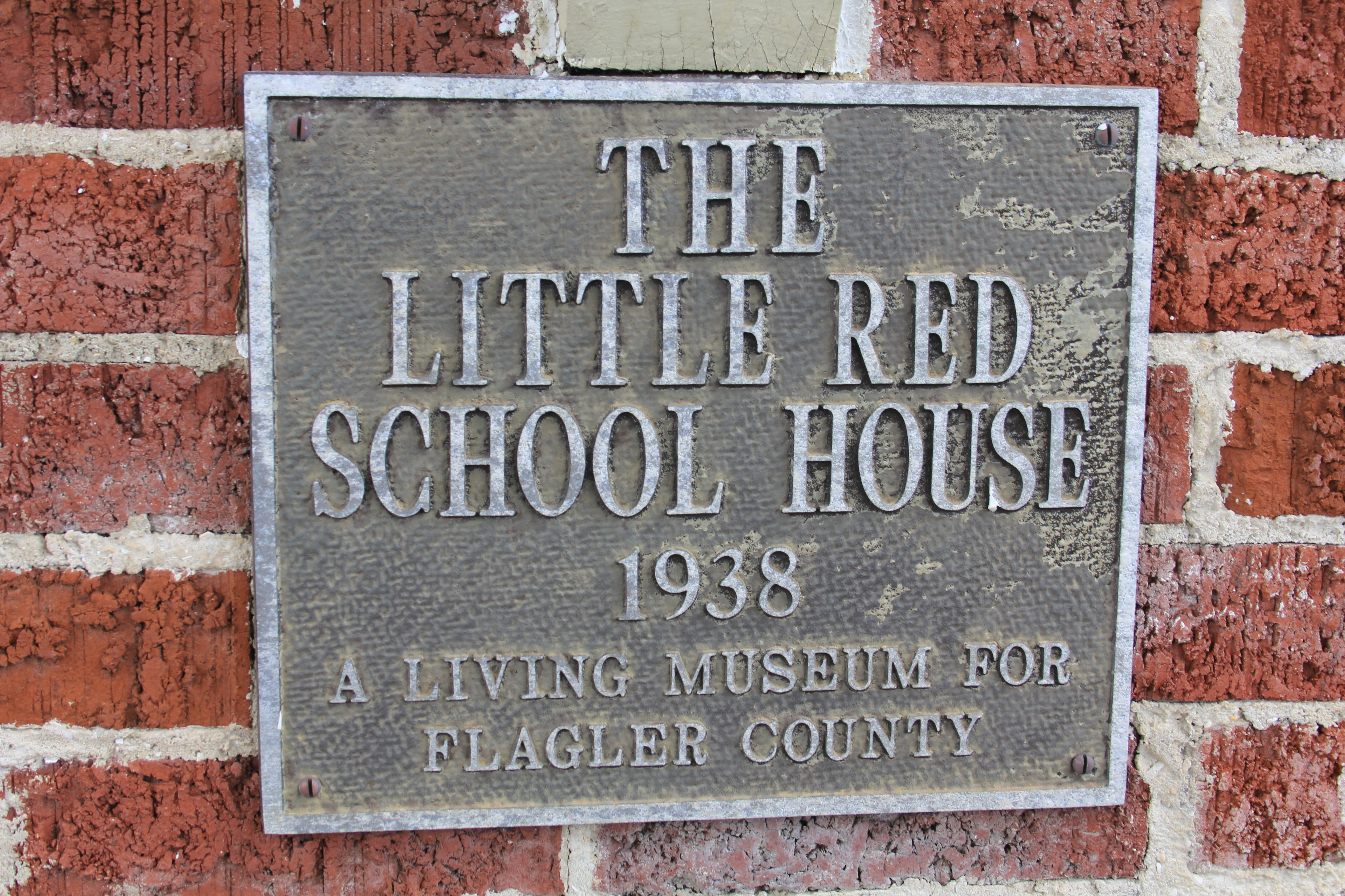 The Agriculture Vocational Building - Little Red School House - Living Museum plaque